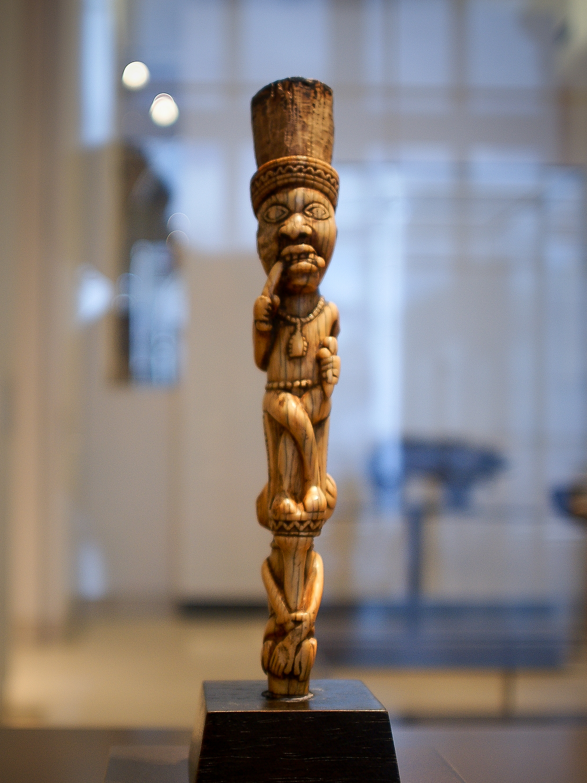 African Art, Louvre: Yombe sculpture as the head of a scepter. From the Democratic Republic of the Congo (Bas-Congo, 19th century)